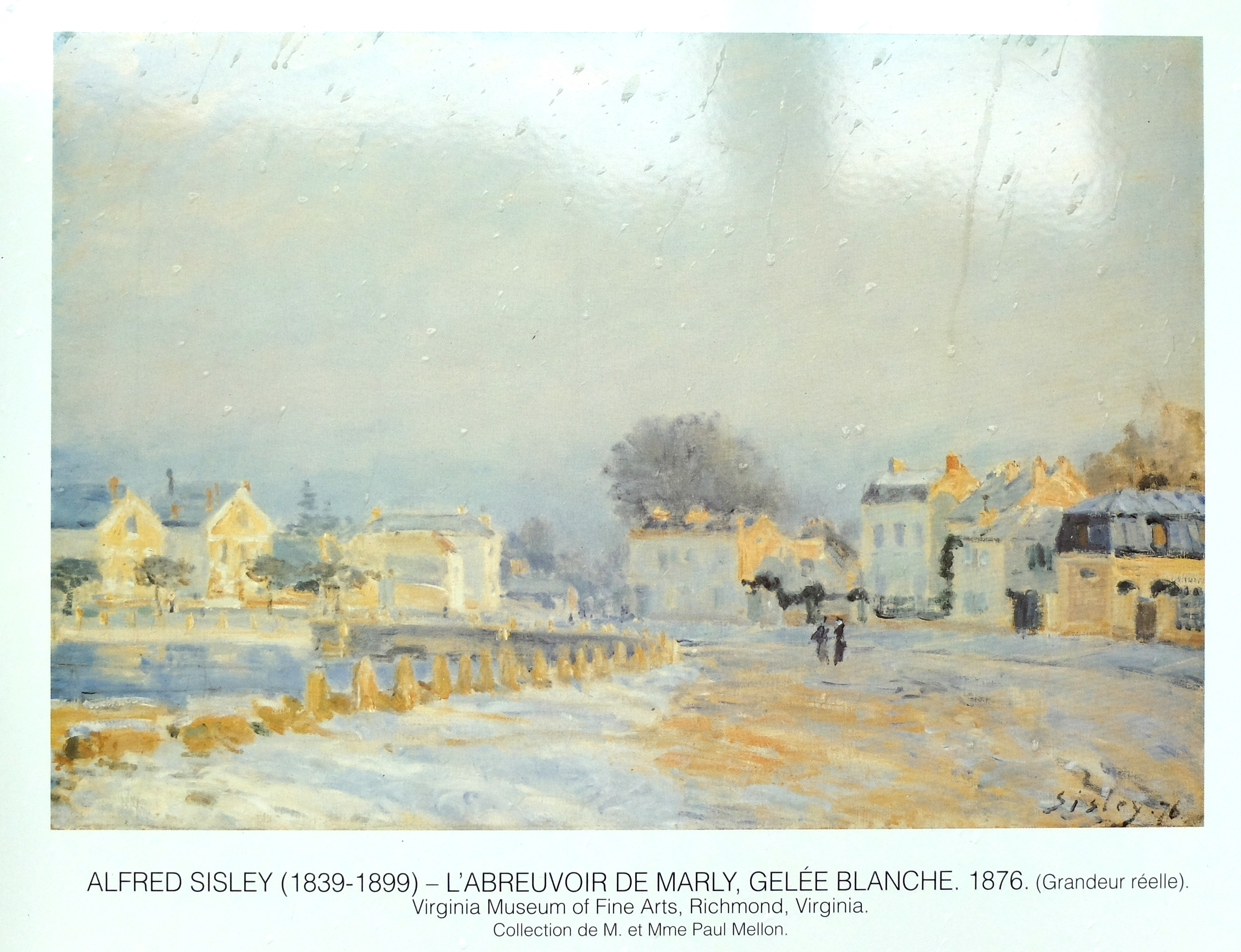 The Watering Pond at Marly with Hoarfrost